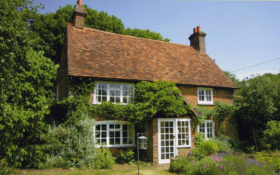 Cholesbury Manor House Orig Tudor building dating from c1590 Cholesbury Buckinghamshire view of front of building